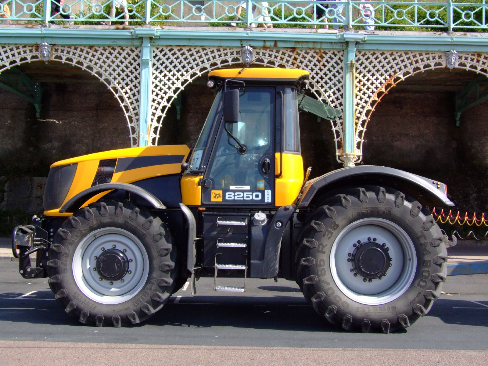 A JCB Fastrac 8250 tractor in Brighton, England, UK